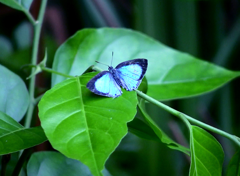 Sinthusa natsumiae, female, Mt. Canlaon, Negros Is.